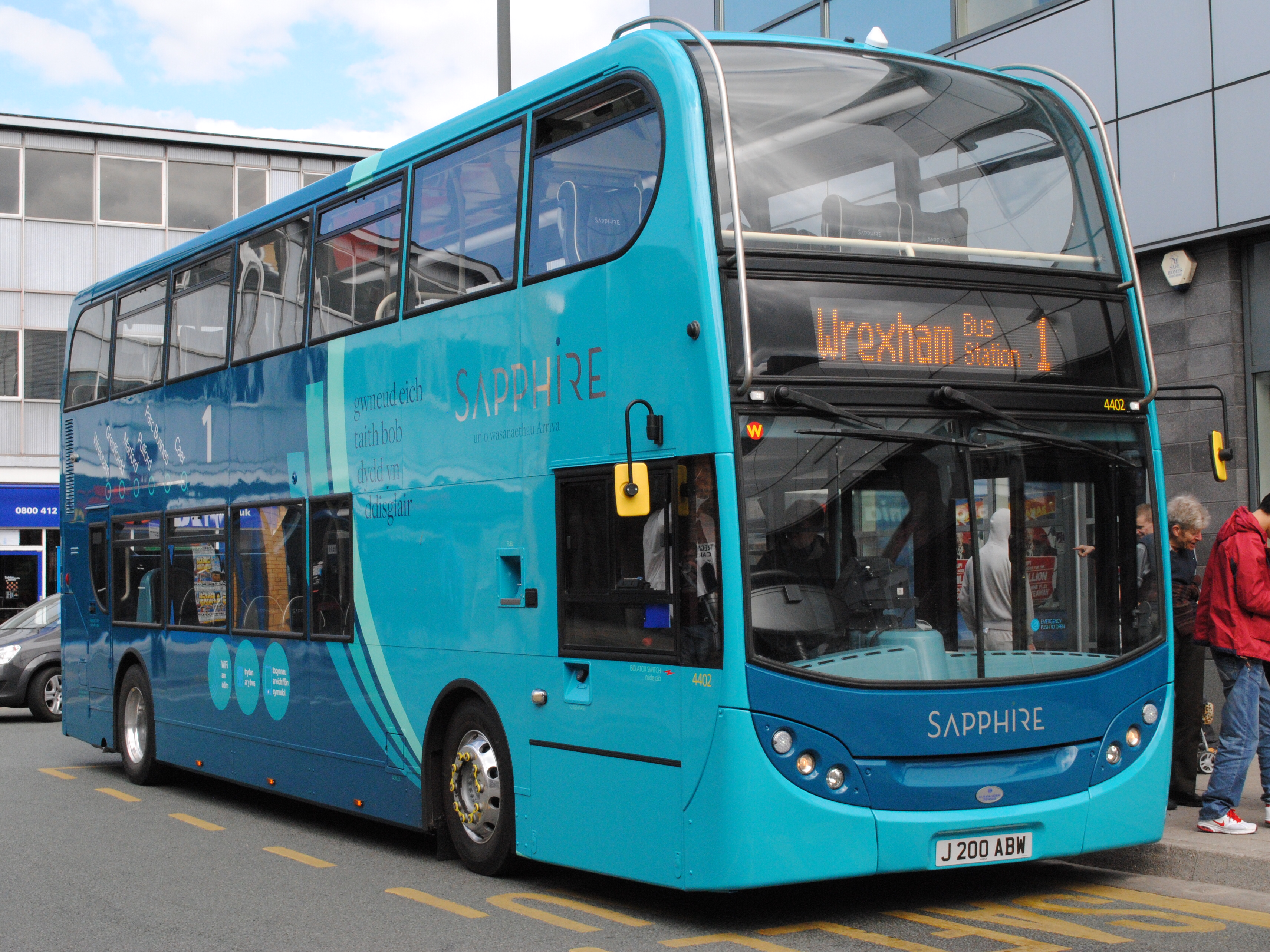 Alexander Dennis Enviro 400. new to Arriva North West CX58FZO